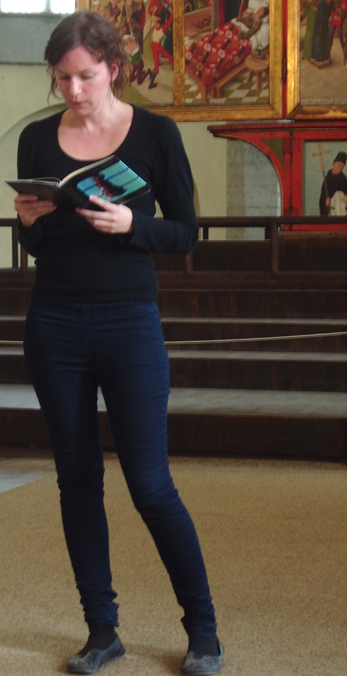 Satu Manninen (born 1978) is a Finnish poet. Performing in Niguliste church during Tallinn Literature Festival.